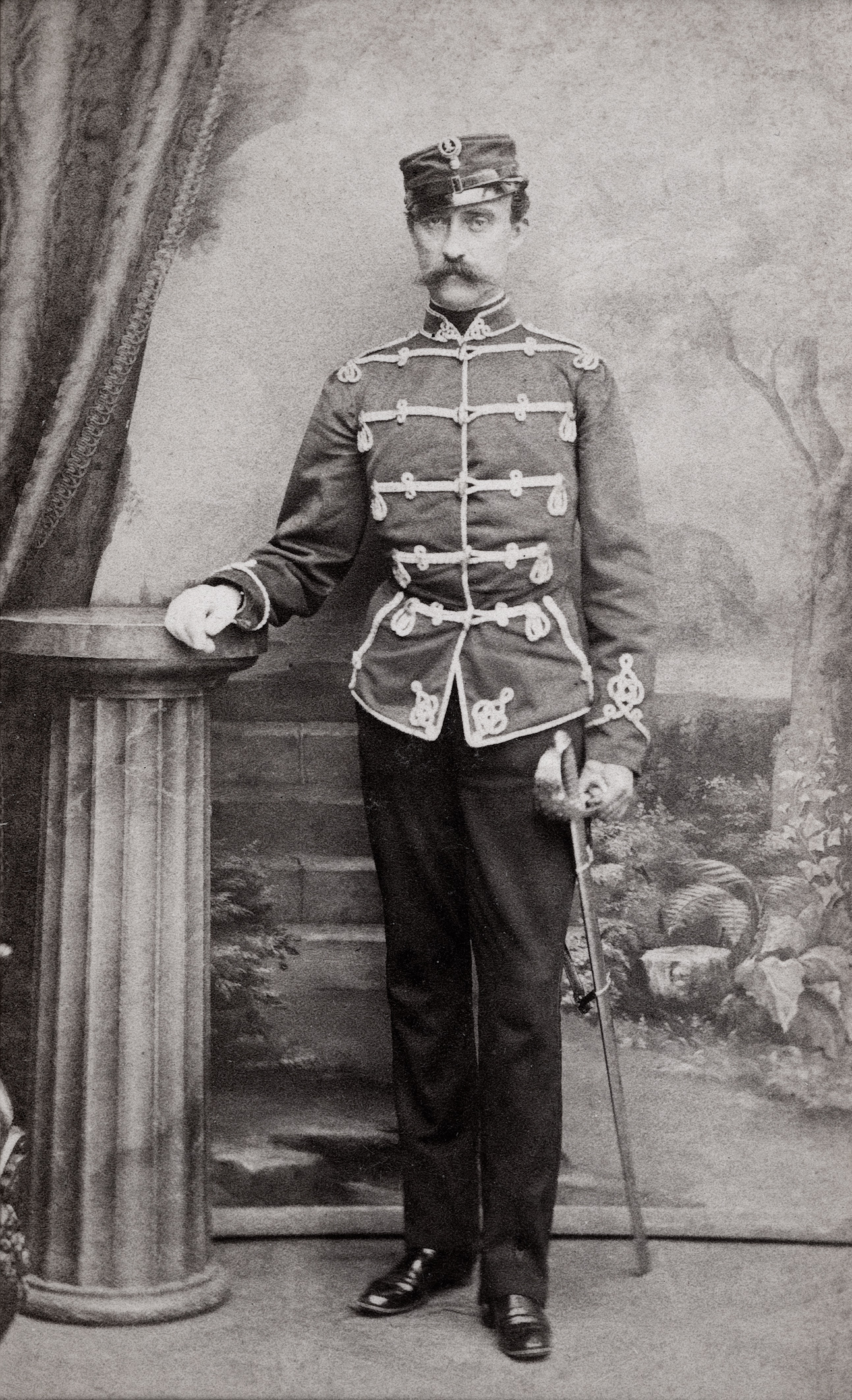 Friedrich Carl Engelbert von der Decken